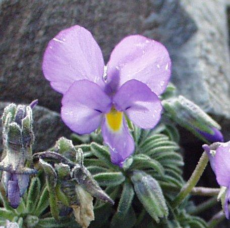 (en) Diverse-leaved Violet (Viola diversifolia), a photography originating of the internet site The accord of the autor, H. Brisse, is here. (fr) Pensée de Lapeyrouse (Viola diversifolia), une photographie issue du site internet L'accord de l'auteur, H. Brisse, se situe ici.